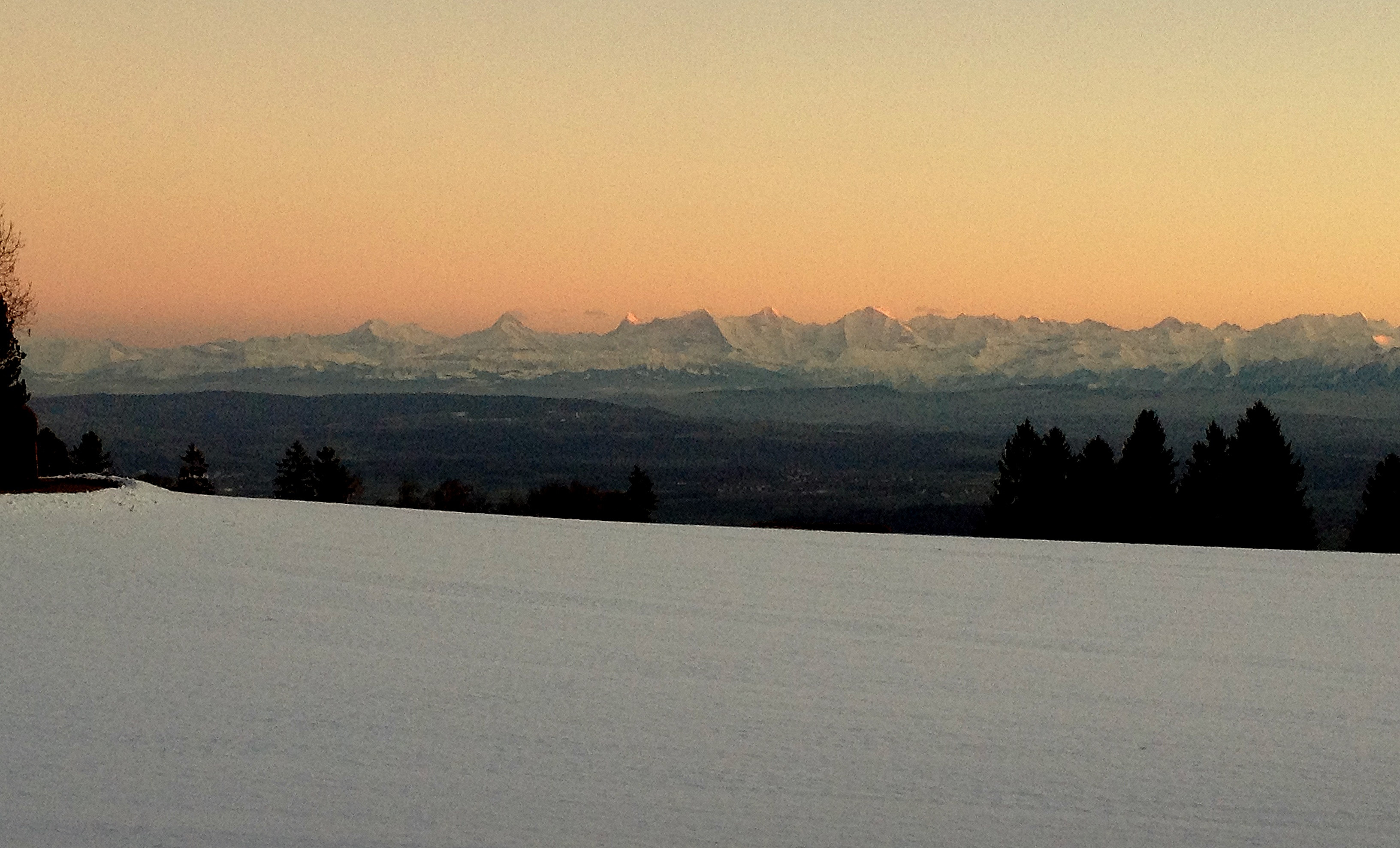 Bernese Alps in the evening seen from the Jura (Prêles above Lake of Biel/Bienne, Kanton Bern)